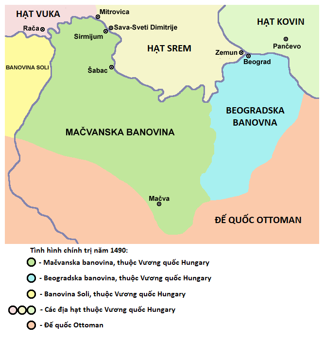 "Banate of Macho (Banate of Mačva) and Banate of Belgrade in 1490" translated into Vietnamse